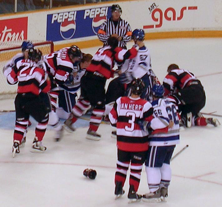 Hockey fight between the Sudbury Wolves and the Ottawa 67's, around 2006.